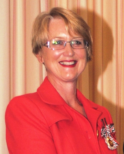 Helen Anderson, after her investiture as a Companion of the Queen's Service Order, for services to the Ministry of Research, Science and Technology, on 7 September 2010